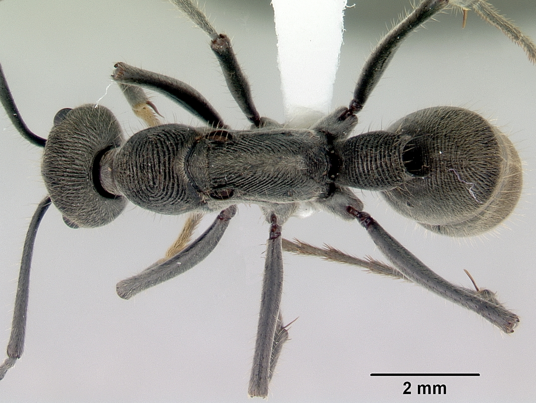 Dorsal view of ant Diacamma australe specimen casent0172073.